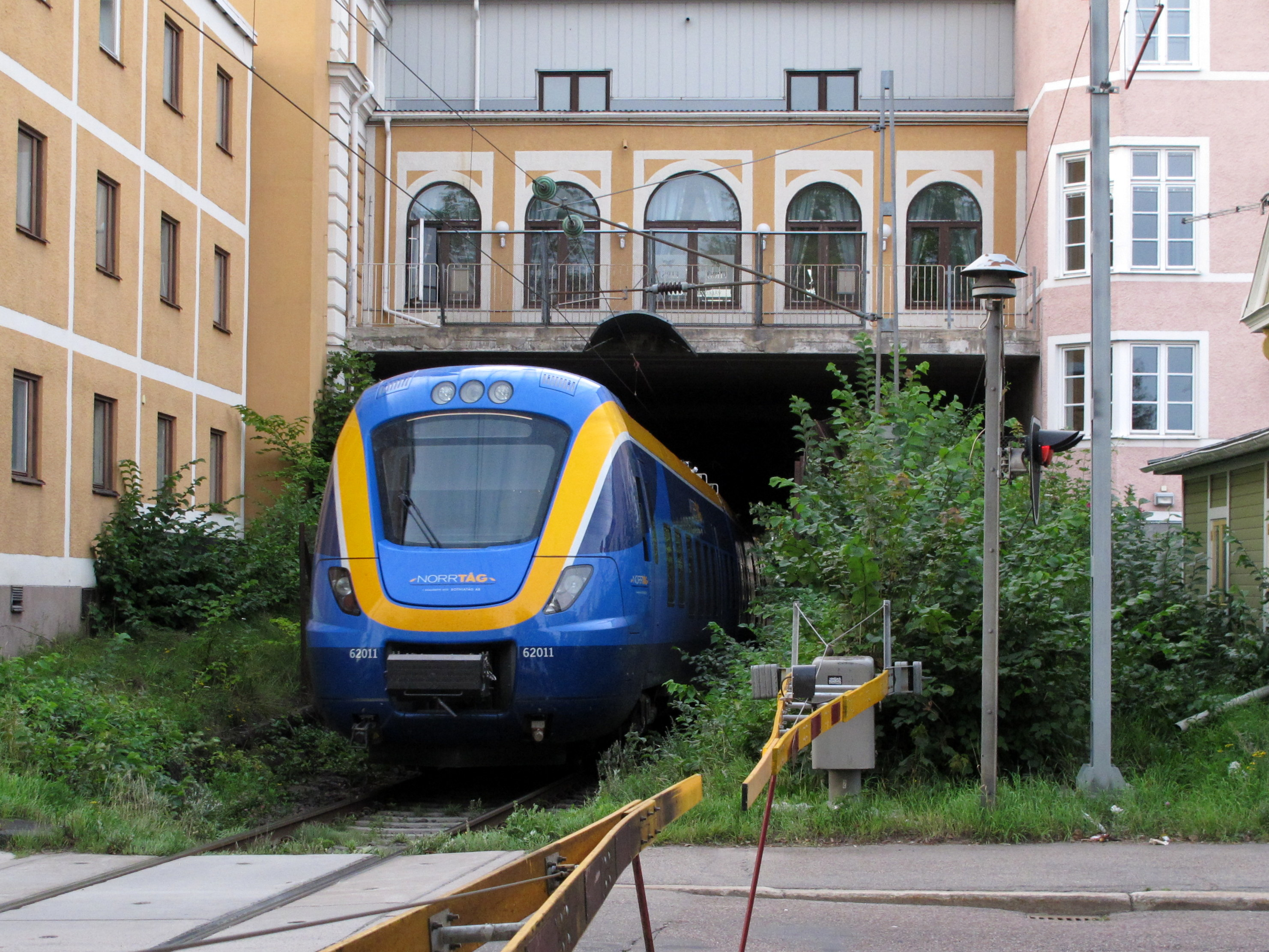 Train passes under the hotel "Statt" in Hudiksvall in Sweden